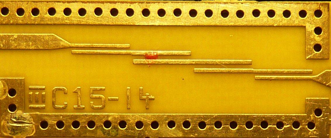 Bandpass filter in microstrip using edge-coupled halfwave resonators. The via fences on each side are not part of the filter, but form part of the enclosure. The substrate thickness is about 0.5mm, and the metallization thickness perhaps 20μm. The pass band is at the bottom of the Ku band, so the substrate dielectric constant must be about 3.5. For scale: the pitch of the via fences is precisely 1mm.